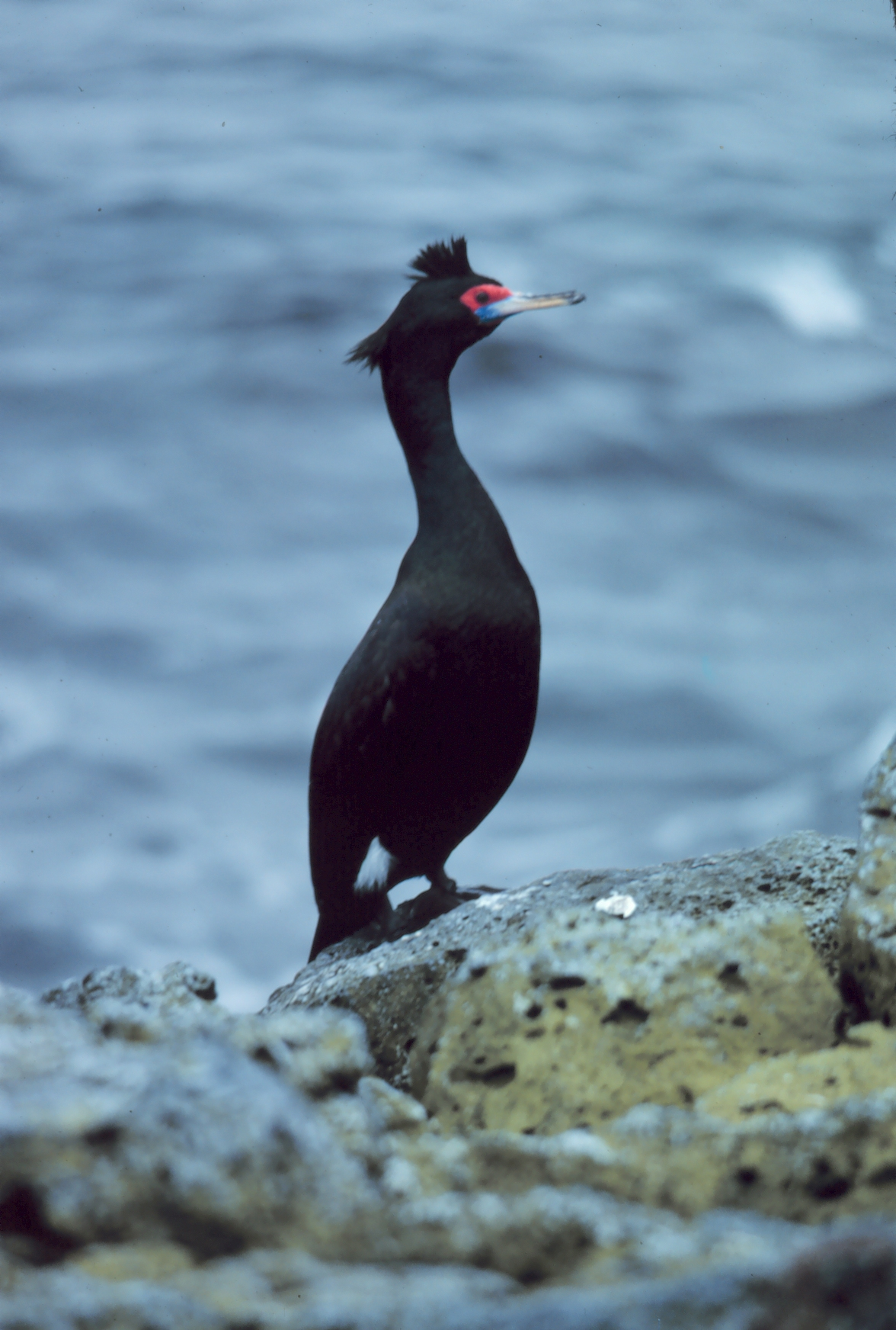 Red-faced Cormorant, Pribilof Islands, Alaska